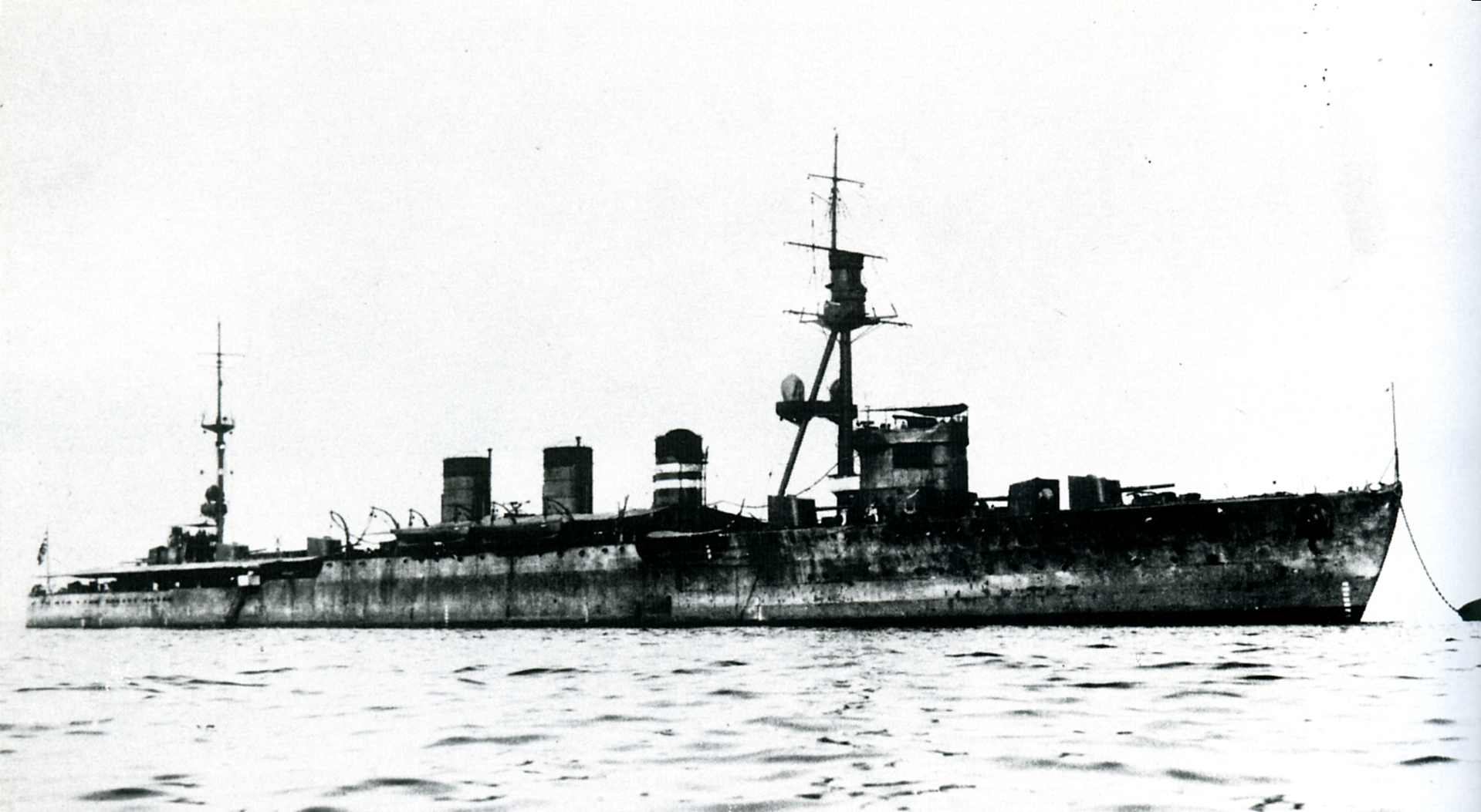 Japanese light cruiser Oi off of Kure, Hiroshima in 1923.